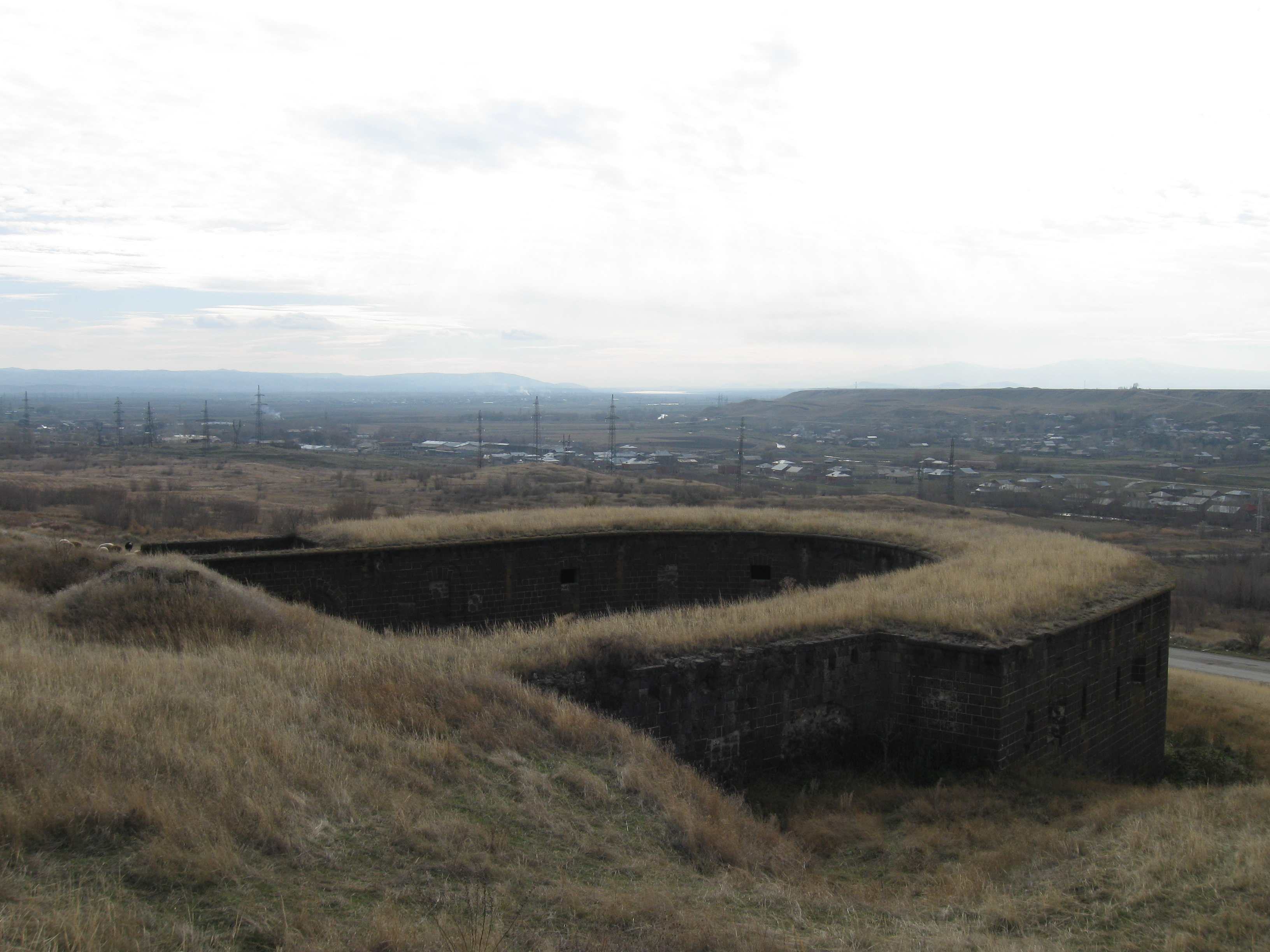 Alexandropol fortress